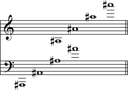 Notes, A Sharp